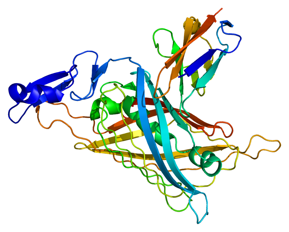 Structure of the NID1 protein. Based on PyMOL rendering of PDB 1gl4.